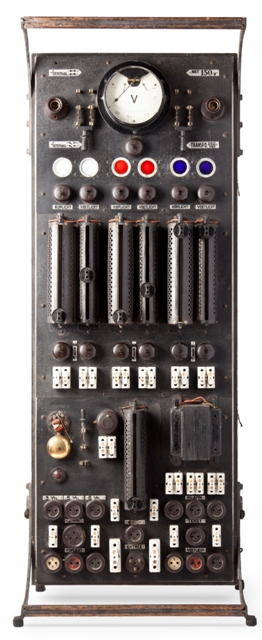 Klank - en lichtbord van het poppenspel Den Uyl.